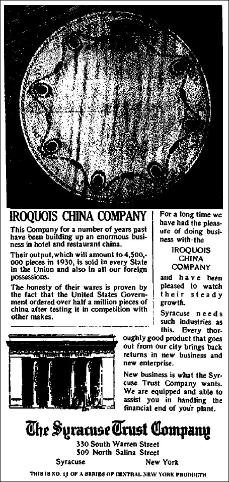 Iroquois China Company business customer of the Syracuse Trust Company